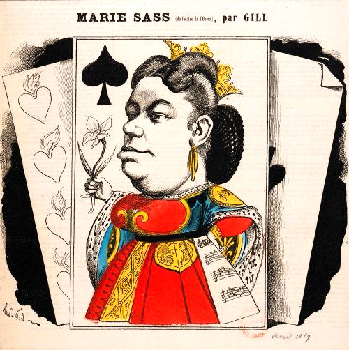 Cartoon of Marie Sasse singing Elisabeth from Verdi's Don Carlos (Original: 28 x 28 cm).